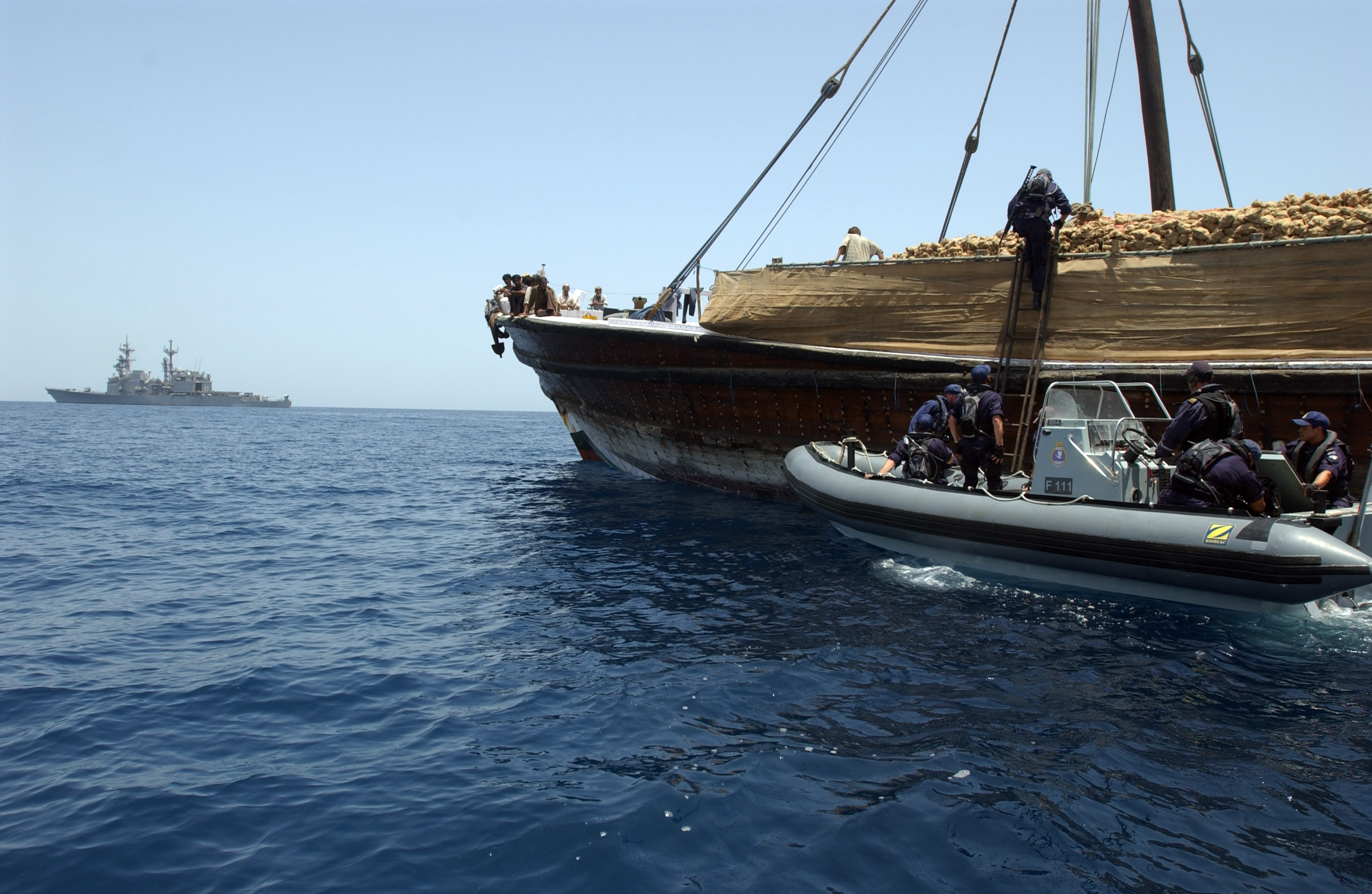 040506-N-7586B-322 Gulf of Oman (May 6, 2004) - Crew members assigned to the New Zealand Frigate HMNZS Te Manas (F111) Boarding Team use a Rigid Hull Inflatable Boat (RHIB) to board a dhow as they conduct searches of fishing vessels in the area. The multinational Combined Task Force One Five Zero (CTF-150) was established to monitor, inspect, board, and stop suspect shipping to pursue the war on terrorism and includes operations currently taking place in the North Arabia Sea to support Operation Iraqi Freedom. Countries contributing to CTF-150 currently include Australia, Canada, France, Germany, Italy, Pakistan, New Zealand, Spain, United Kingdom and the United States. U.S. Navy photo by Photographer's Mate 1st Class Bart Bauer. (RELEASED)